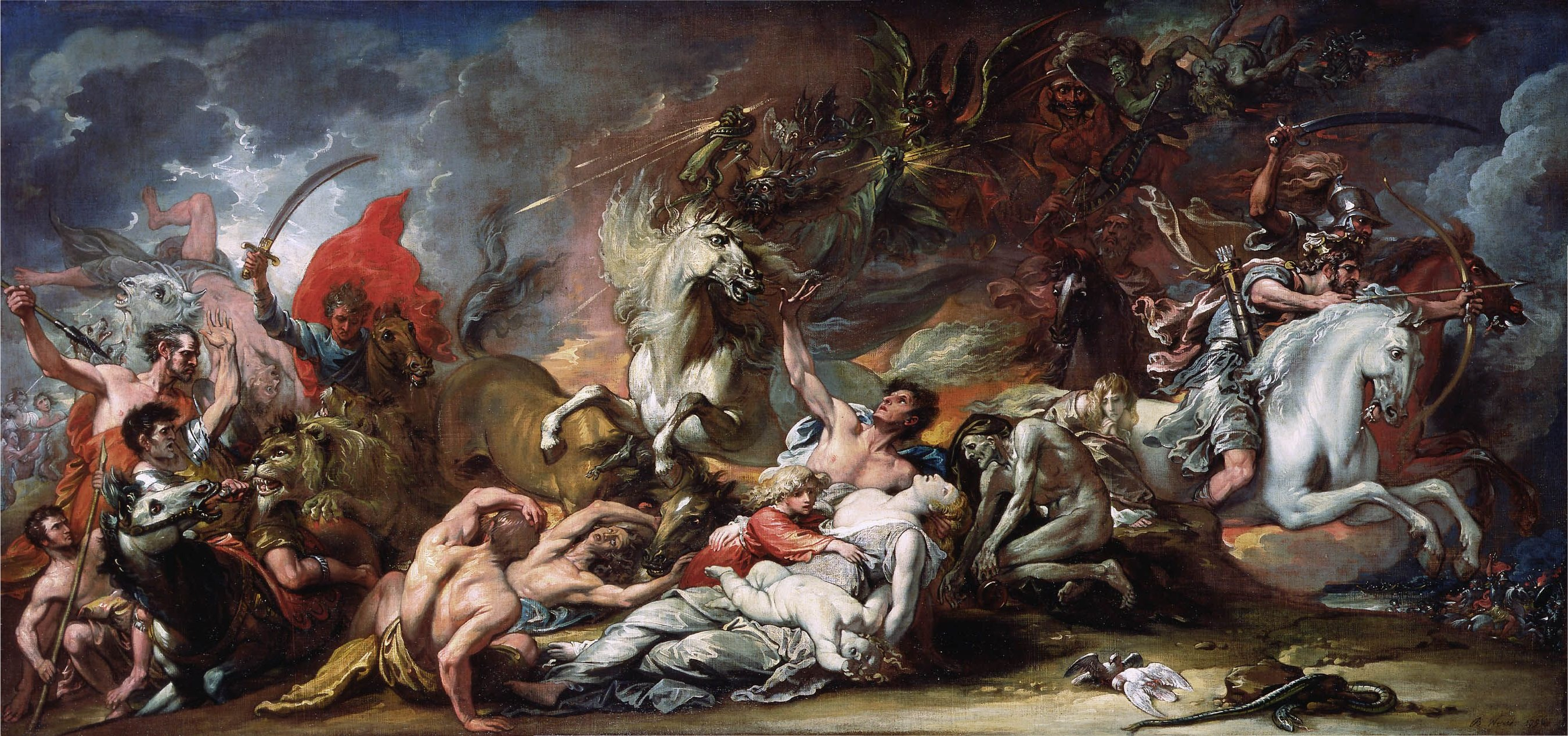 Death on a Pale Horse is a version of the traditional subject, Four Horsemen of Revelation.